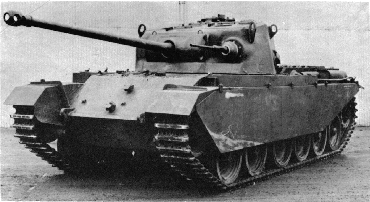 An A41 prototype mounting a 17-pdr gun and a 20mm Polsten cannon. The seperate gunner's hatch can be seen in front of the commander's cupola